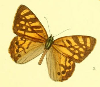 in original as Rhapicera moorei male